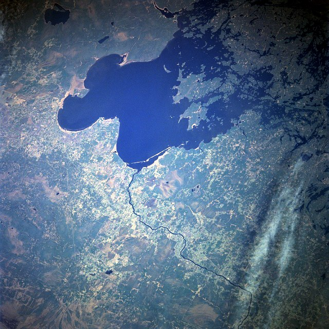 Aerial view of Lake of the Woods, Canada/USA (satellite photo)